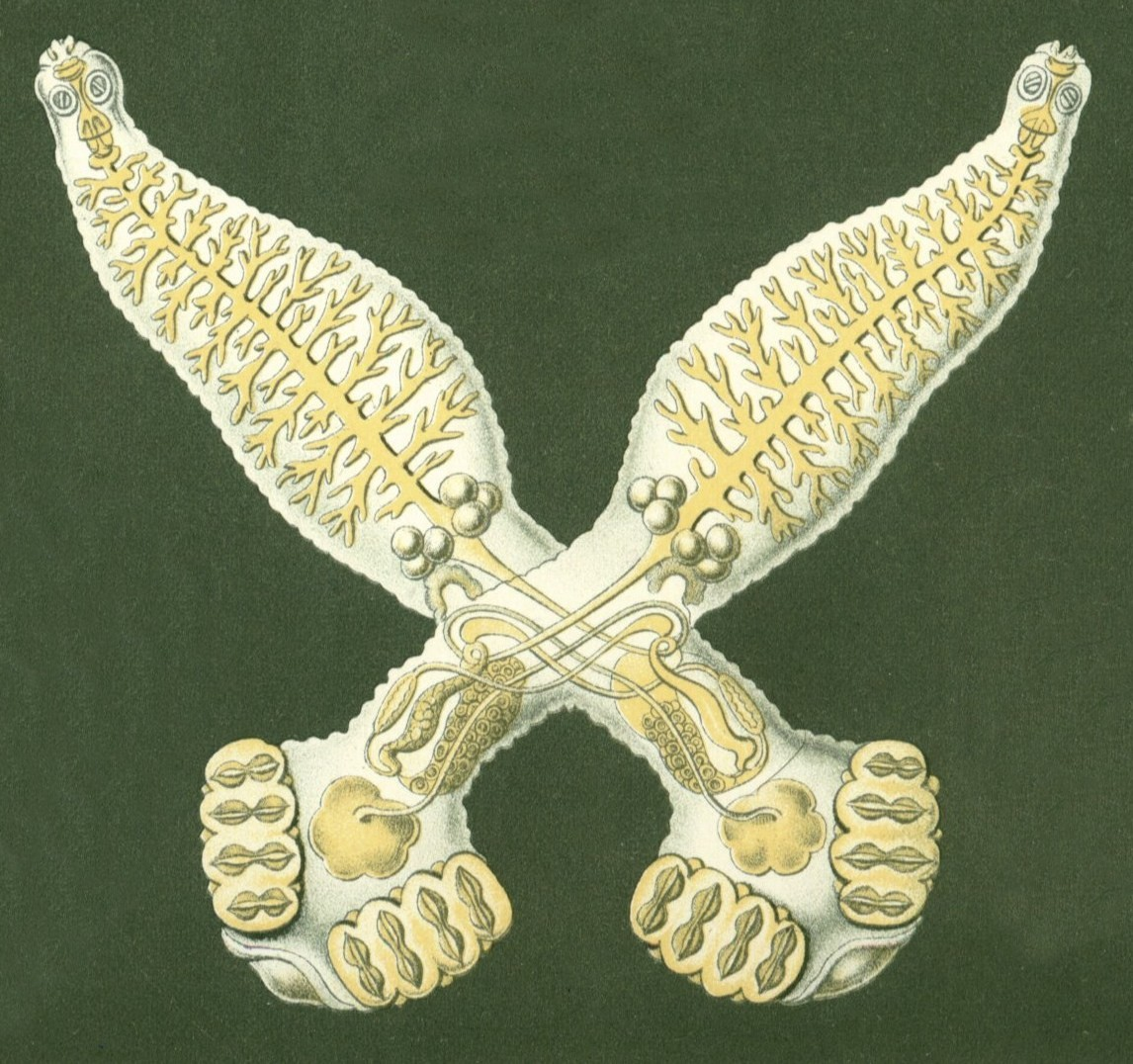 Diplozoon paradoxum (Nordmann) = Diplozoon paradoxum von Nordmann, 1832, mated pair from below